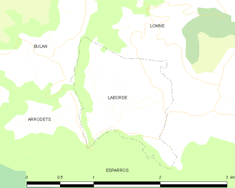 Map of French municipality